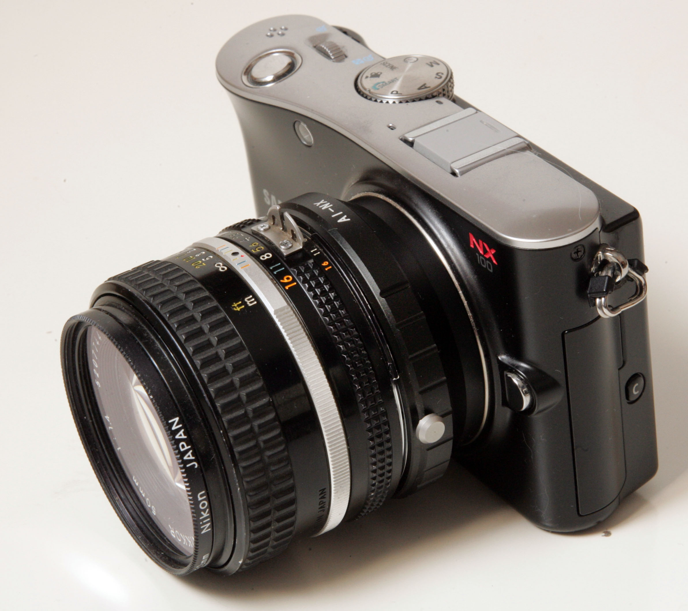 Nikkor 50/1,4 lens attached to Samsung NX100 camera, using lens adapter.